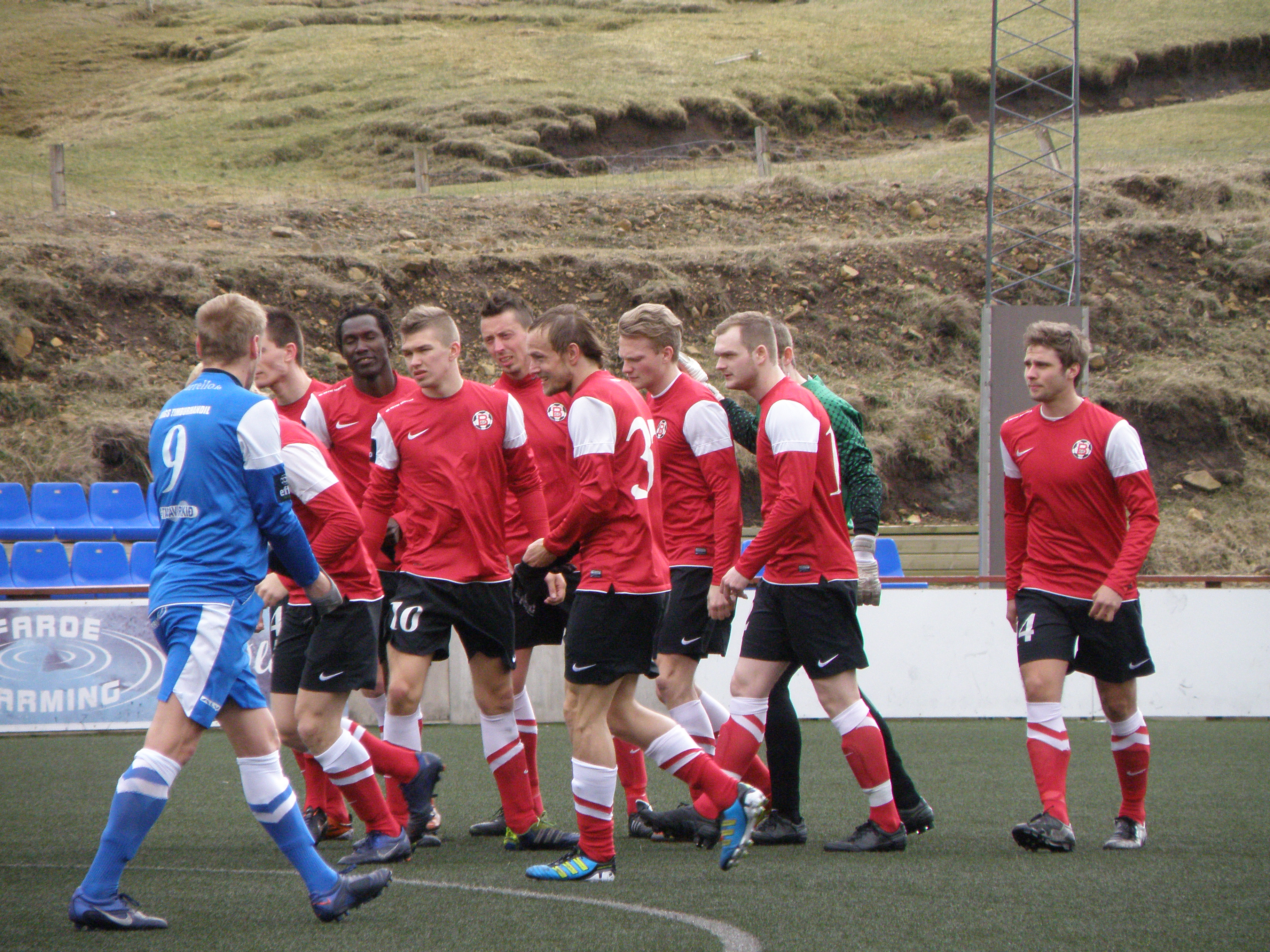 B68 Toftir, Faroe Islands, in a football match against FC Suðuroy in Effodeildin on 21 April 2012. Føroyskt: B68 leikarar í dysti móti FC Suðuroy í Effodeildini hin 21. apríl 2012. B68 vann dystin 1-0.